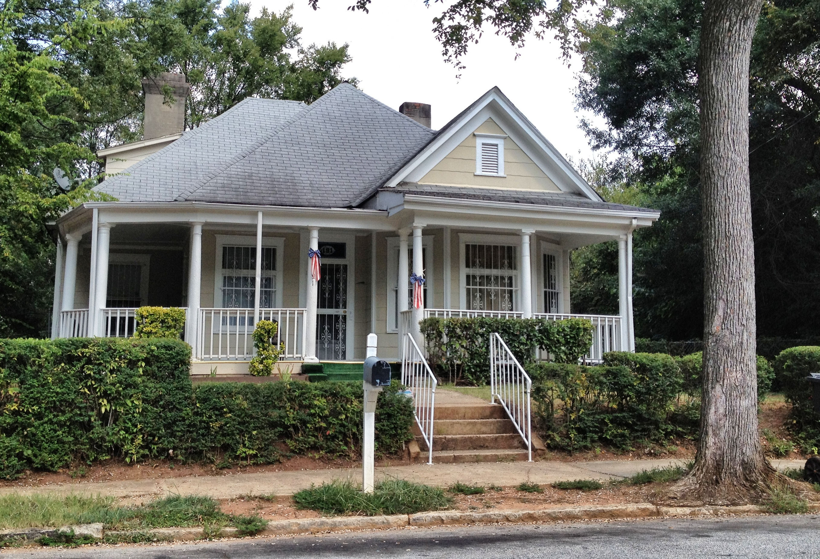 House in proposed Sunset Avenue Historic District, Vine City, Atlanta